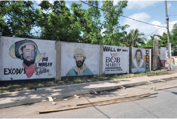 Kevon Rhiney and Romain Cruse 2012 “Trench Town Rock”： Reggae Music, Landscape Inscription, and the Making of Place in Kingston, Jamaica Urban Studies Research (2012) Article ID 585160, 12 pages Nasr City, Cairo, Egypt: Hindawi Publishing Corporation